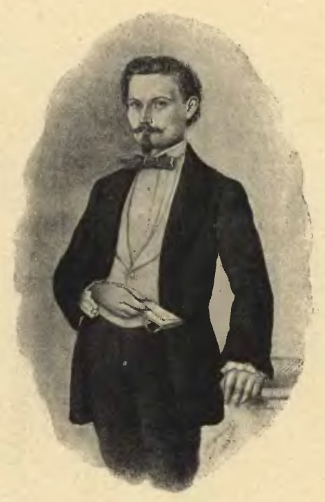 Czech poet Vítězslav Hálek in late 50's of 19th century